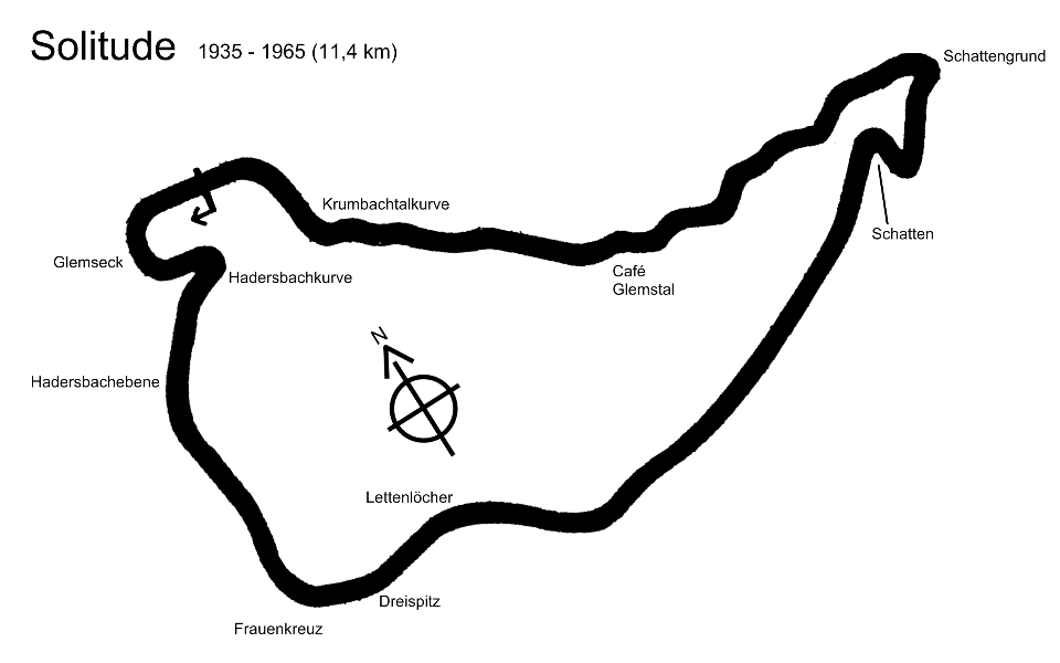 Solitude (Stuttgart, Germany) racetrack layout from 1935 to 1965, last race contested.